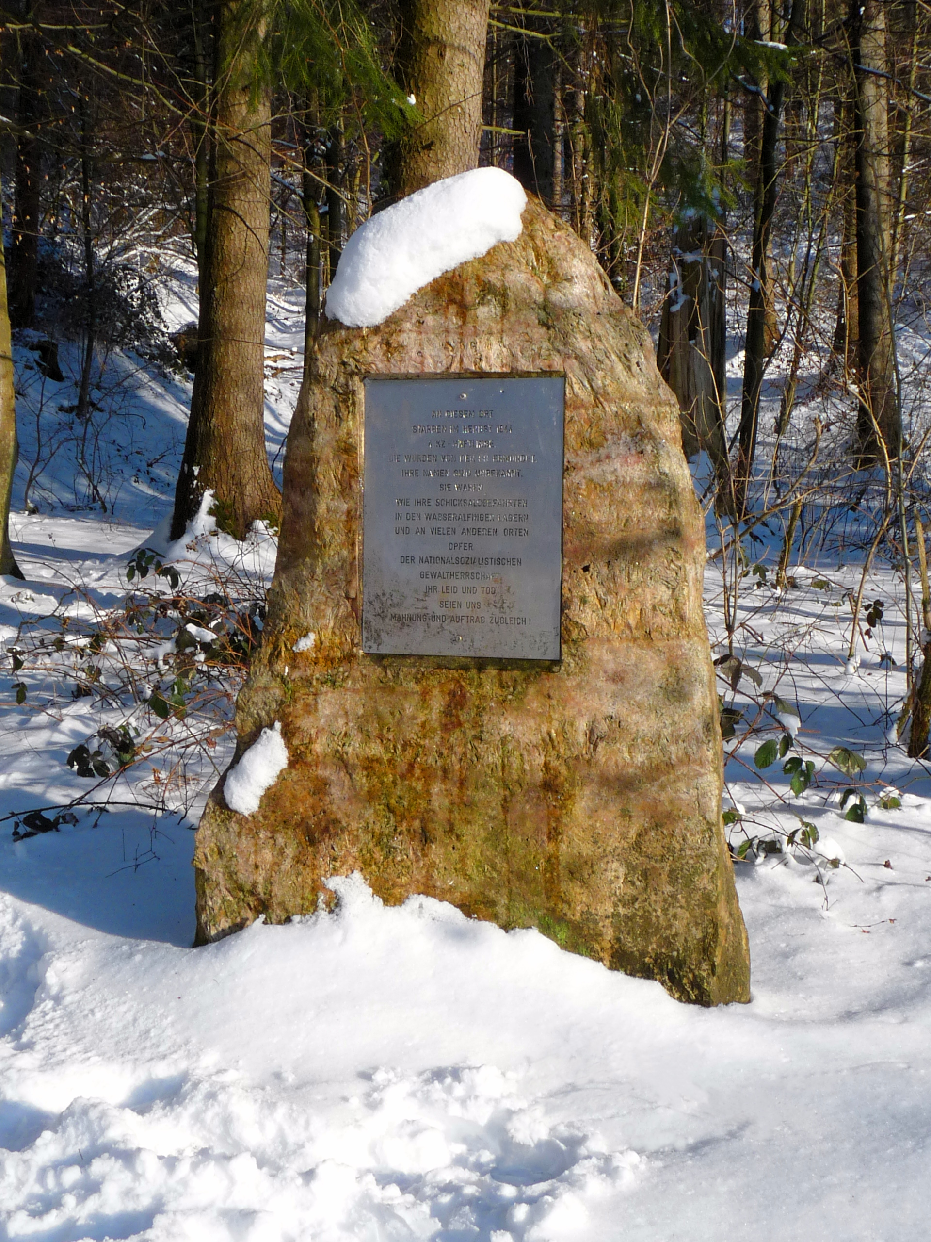 Memorial stone for 4 concentration camp prisoners who were murdered at this place.